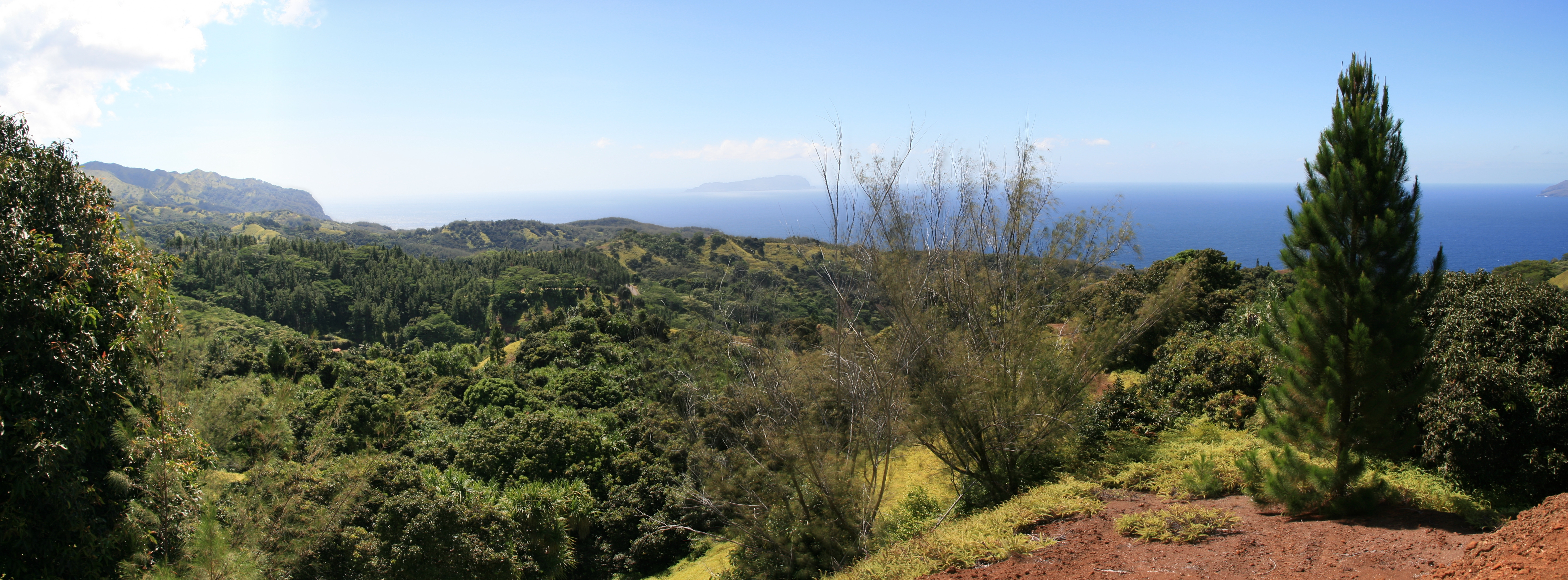 View from Hiva Oa to south-east, Marquesas Islands, French Polynesia. Moho Tani island is visible in the background.